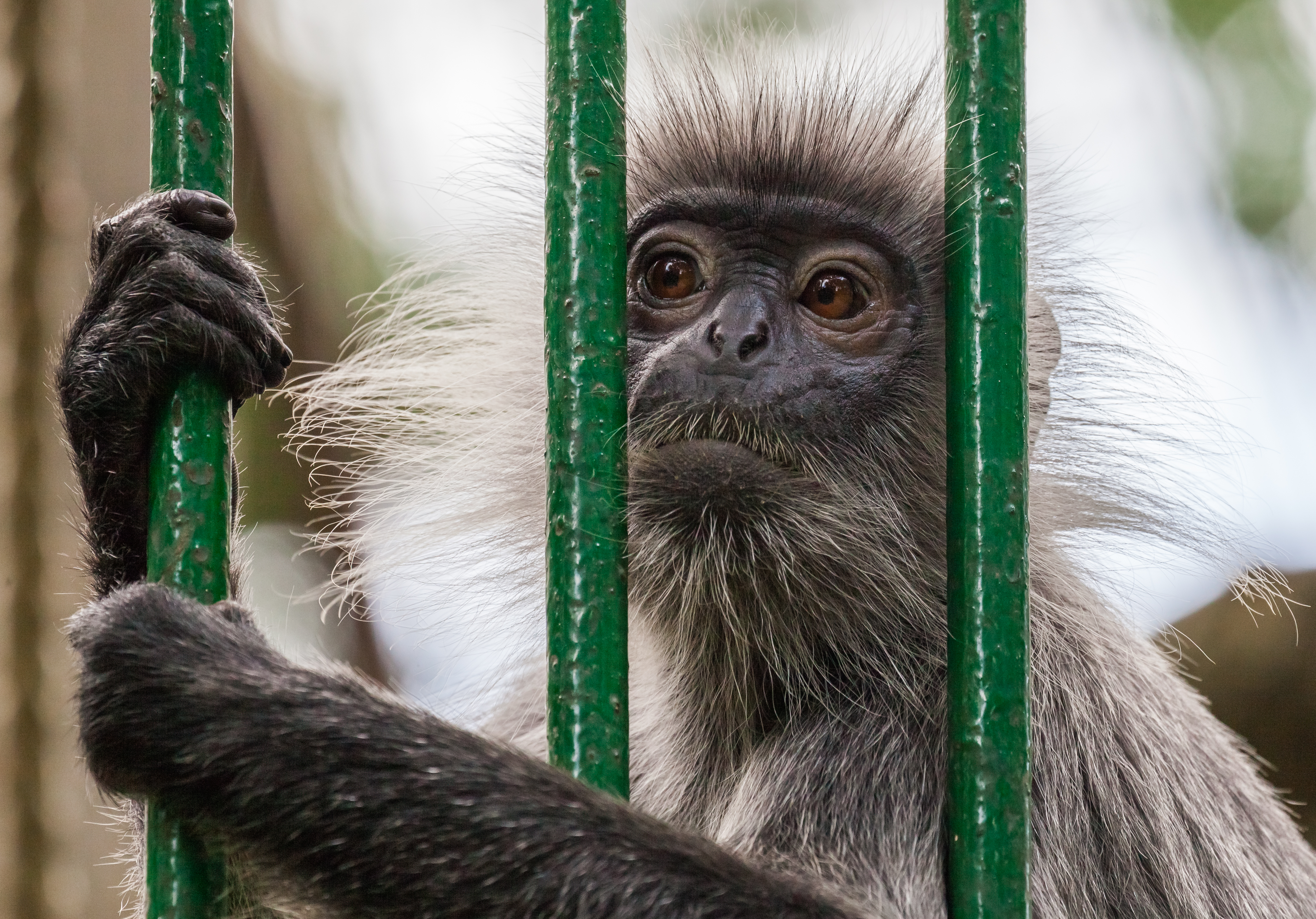 Silvery langur (Trachypithecus cristatus), Ho Chi Minh City Zoo, Vietnam